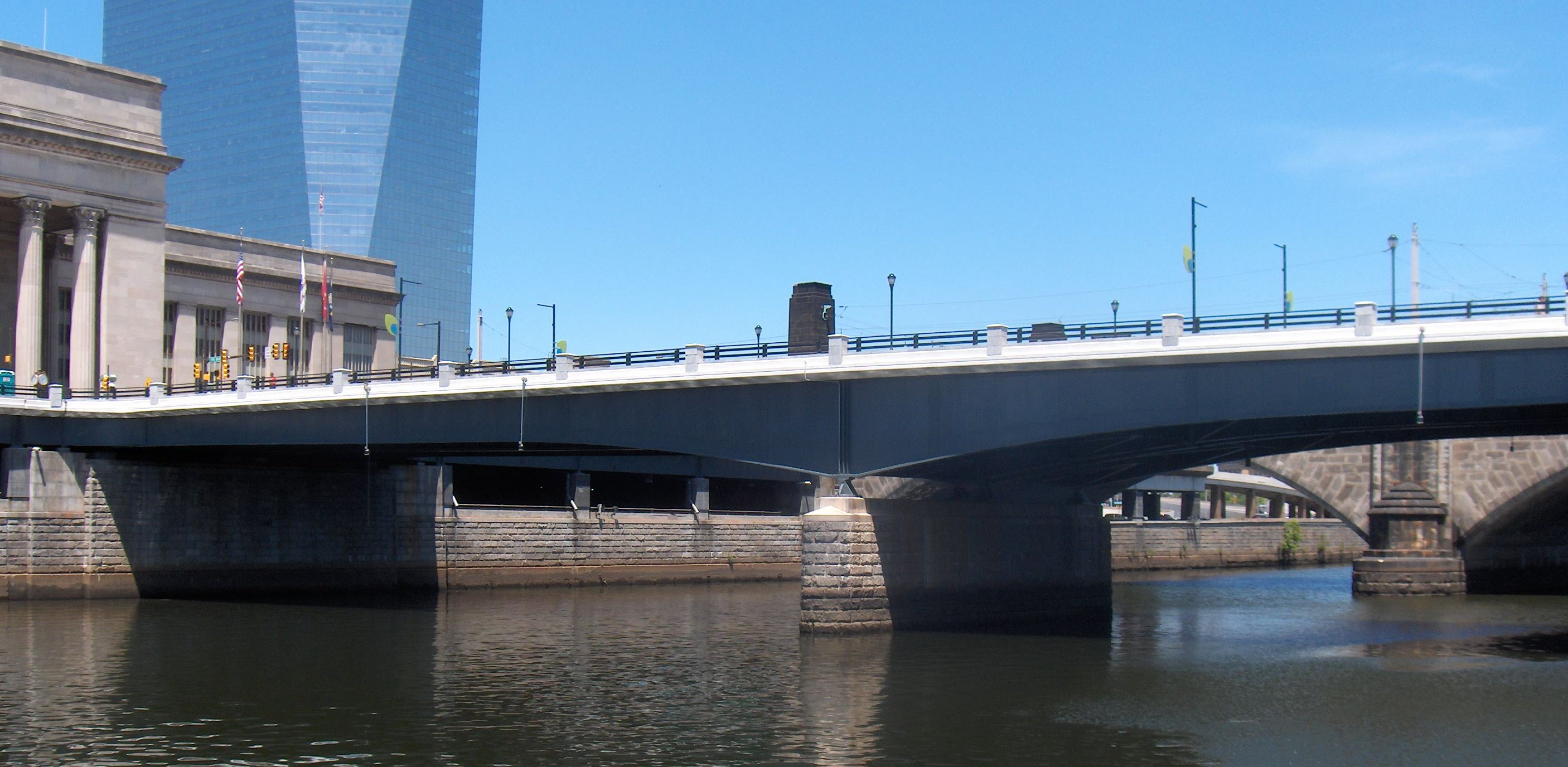 The John F. Kennedy Boulevard Bridge in Philadelphia was built in 1959 and reconstructed 2009 by the Pennsylvania Department of Transportation. It carries John F. Kennedy Boulevard (two lanes westbound, one lane eastbound) across the }Schuylkill River, Schuylkill River Trail, and CSX Transportation tracks. Looking upstream from the Schuylkill River Trail.